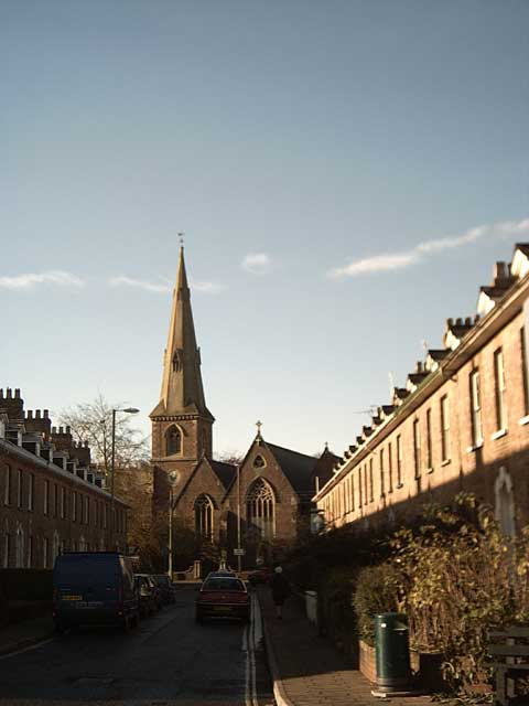 View west-southwest along St Paul's Street, Tiverton, Devon, to St Paul's parish church